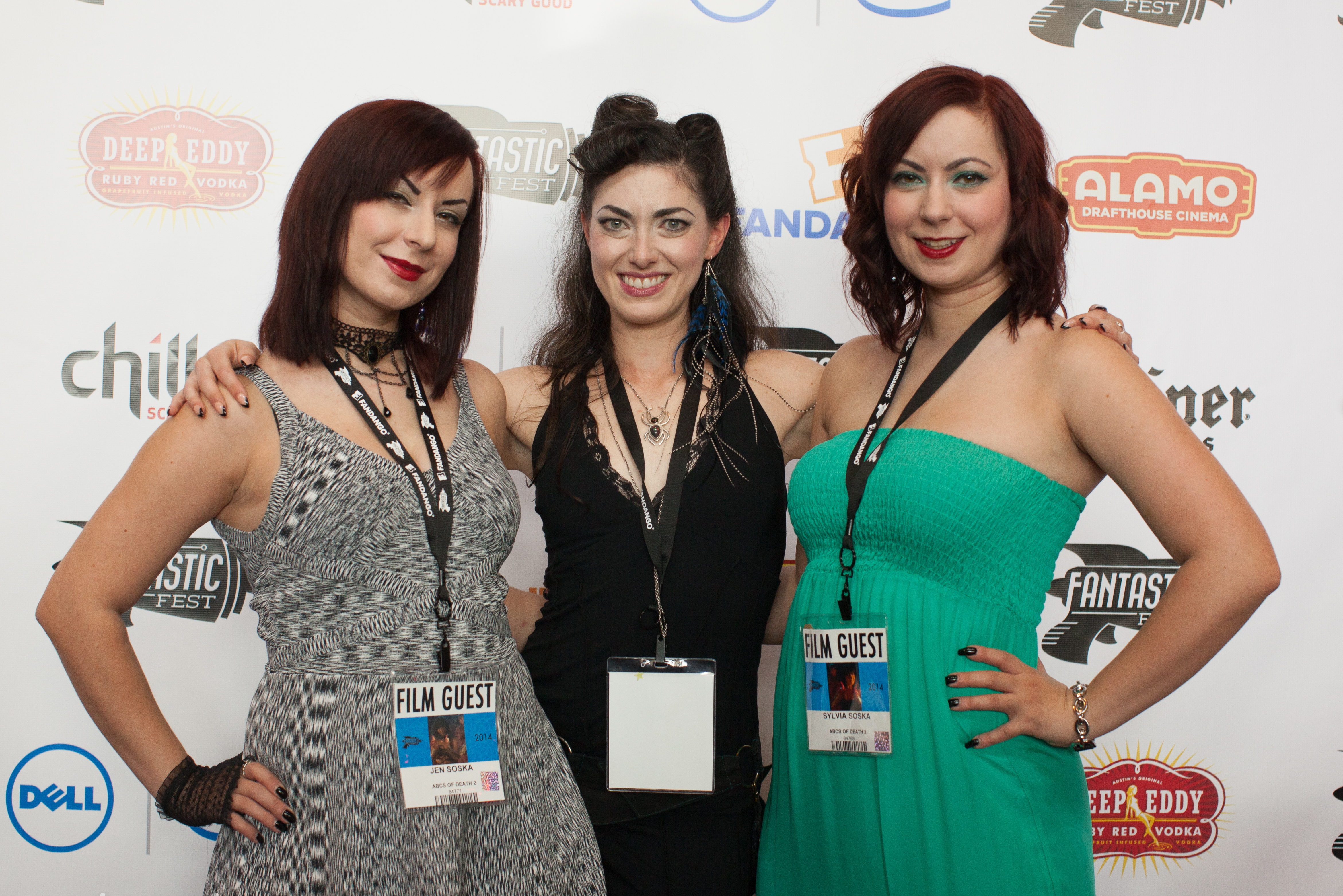 "Twisted Twins" and Tristan Risk, Fantastic Fest 2014 Austin, Texas 2014